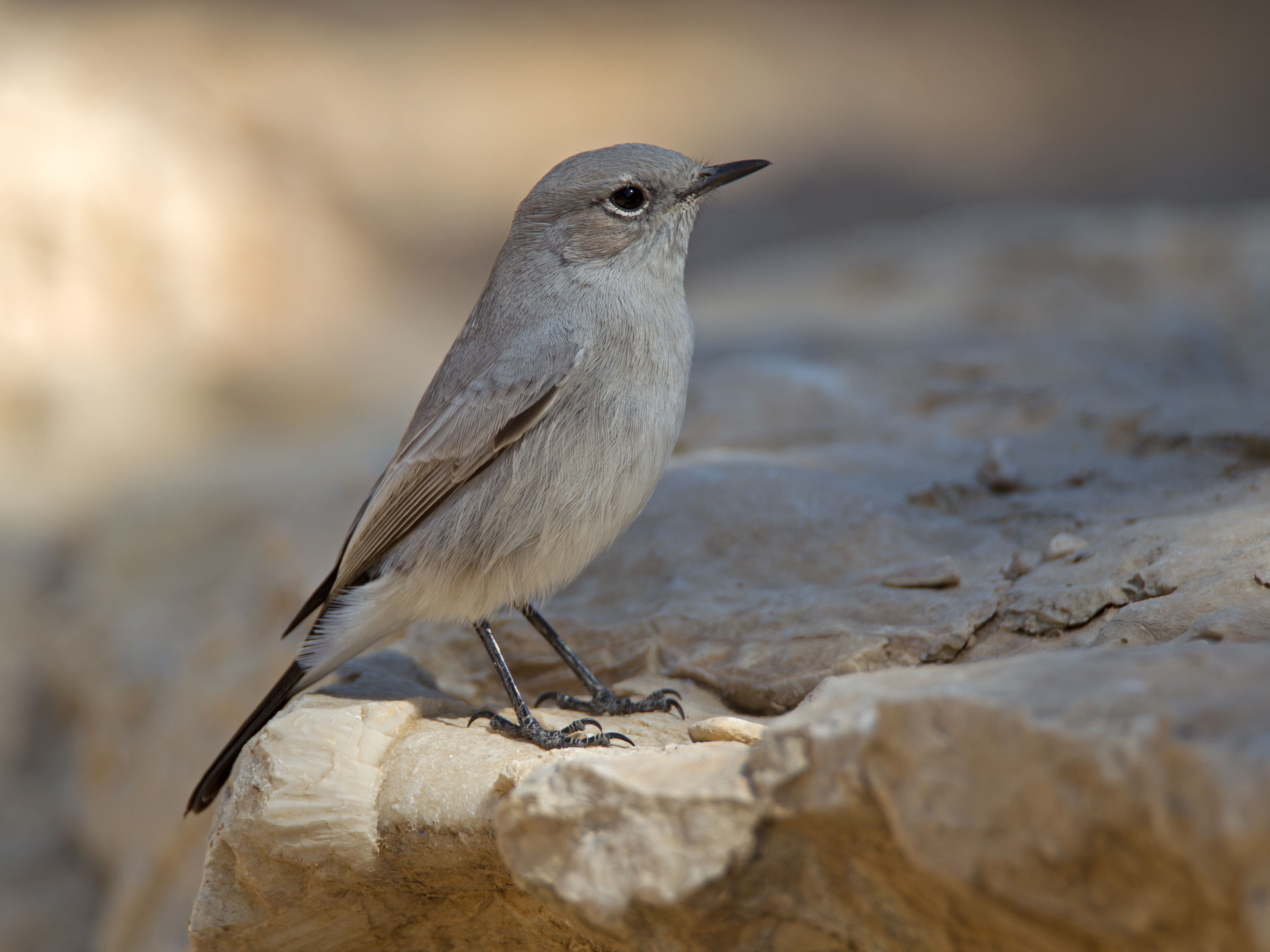 Blackstart Oenanthe melanura at Sde Boker, Israel